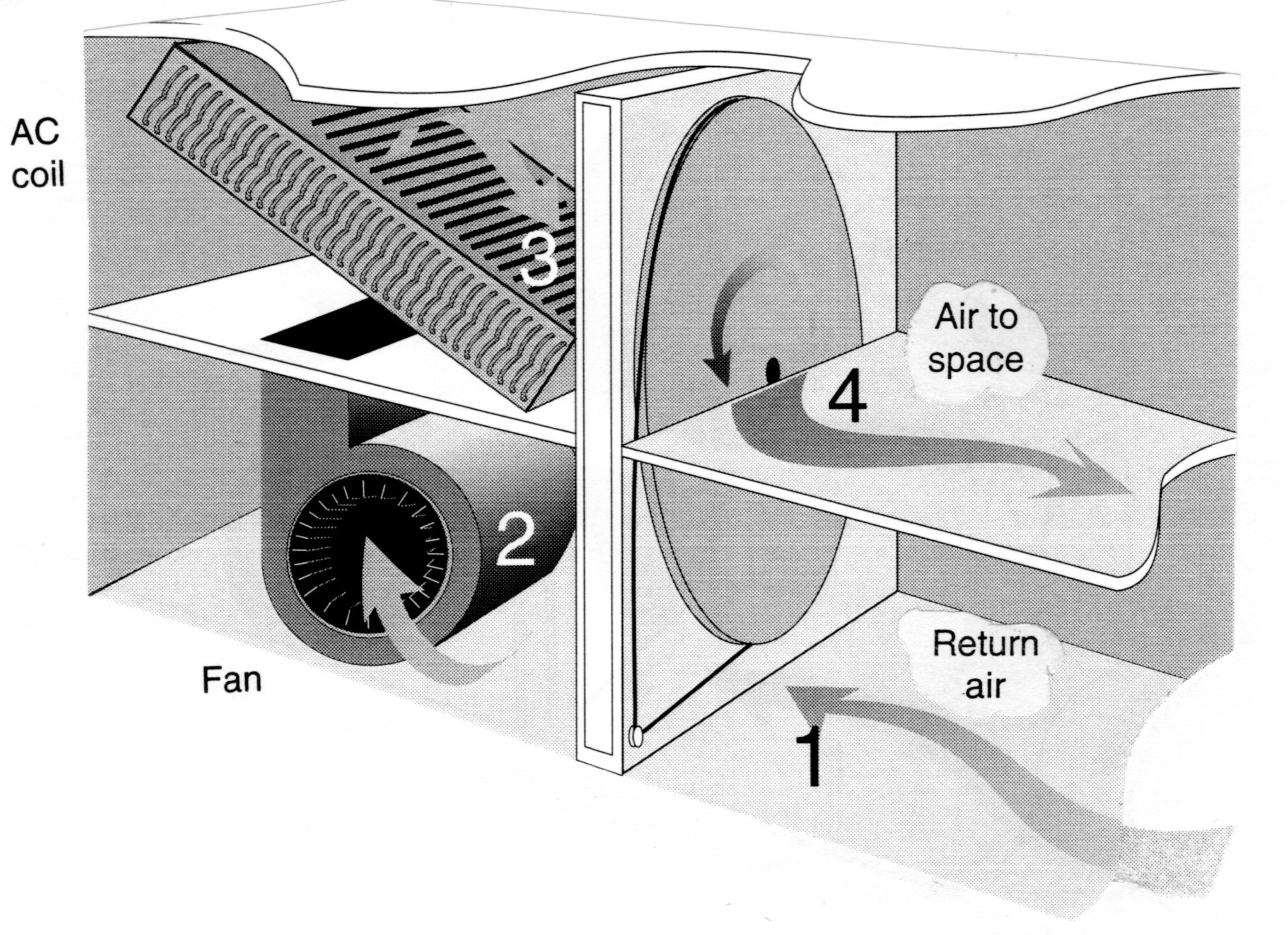 Diagram of Basic Cromer Cycle Showing State Points